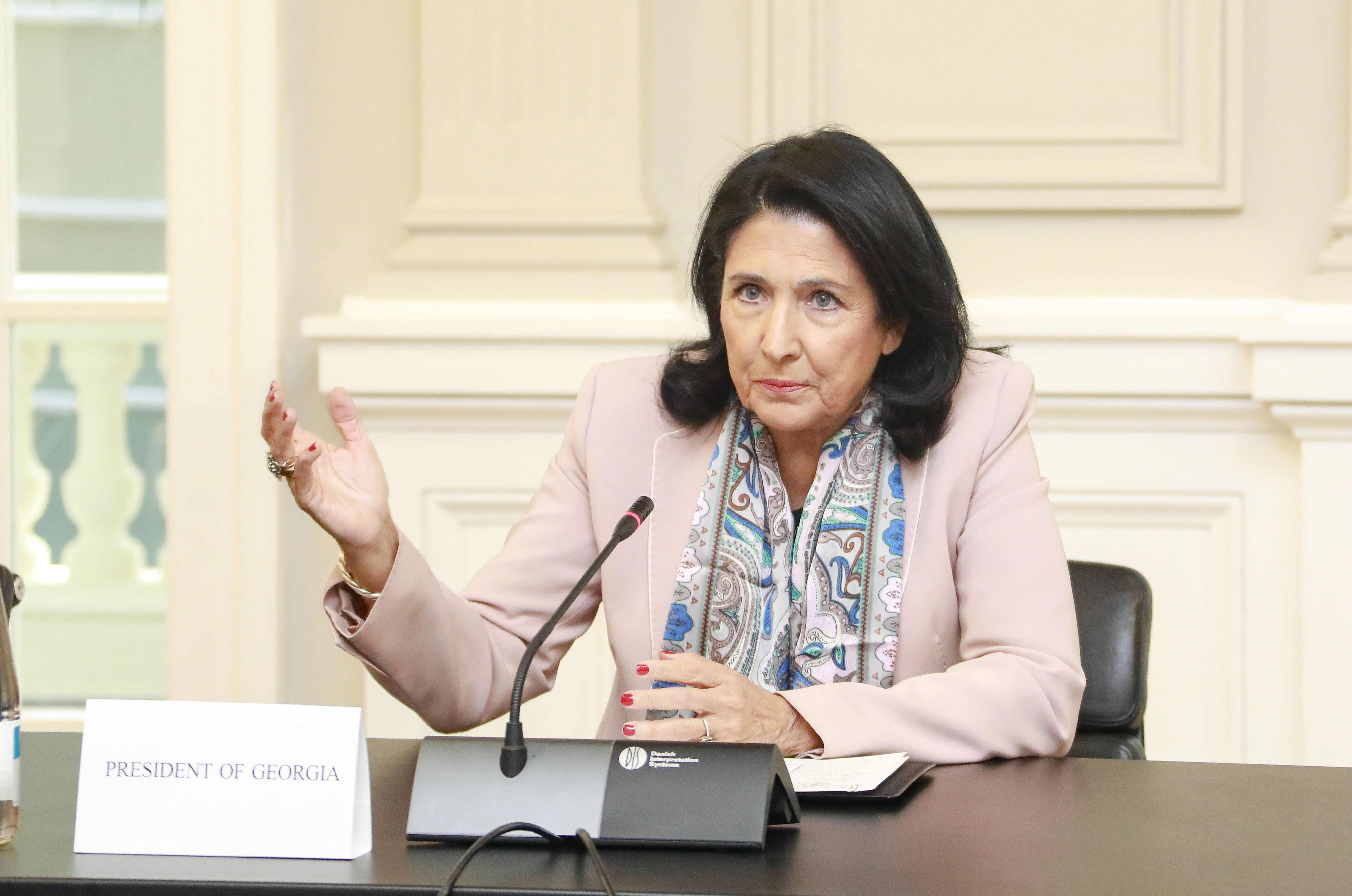 Georgian President Salome Zourabichvili explaining Georgia's priorities as President of the Council of Europe to Marija Pejčinović Burić, Secretary-General of the CoE.